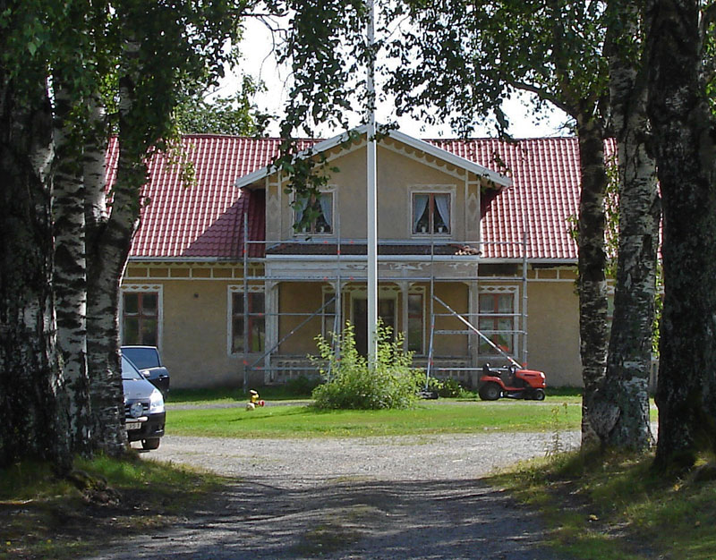 The manor of Dombäck north of Husum in northern Sweden.